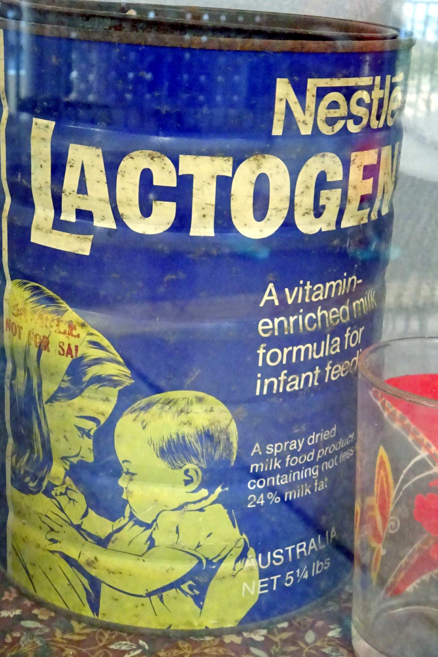 Exhibition rooms in 牛頭角下邨, Upper Ngau Tau Kok Estate, Kwun Tong, Hong Kong